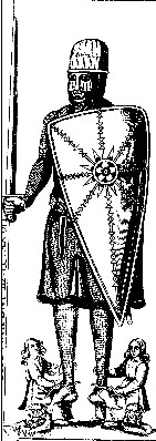 Guillaume Cliton